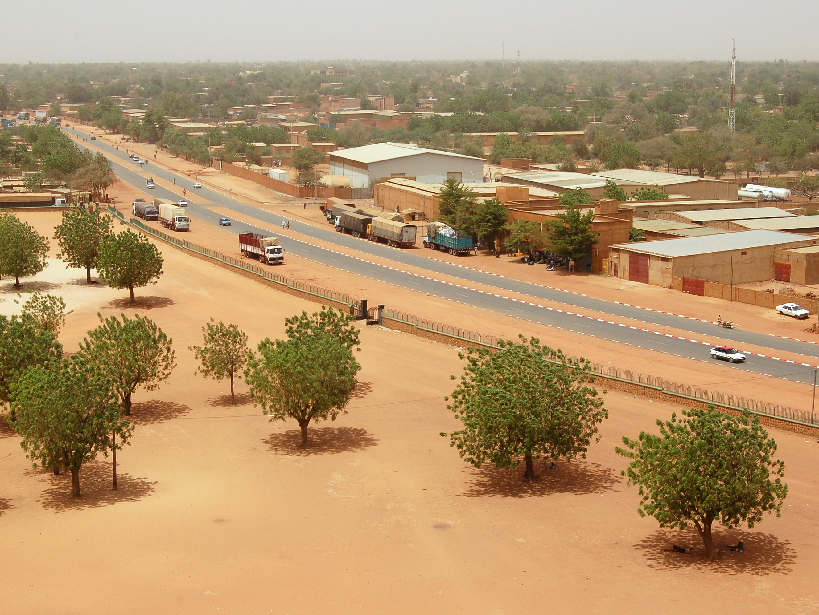 Looking northwest from the grand mosquee niamey in Niamey, Niger. Main road is the Boulevard Mali Bero.